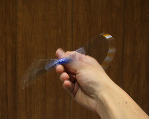 Description: The Thumbaround. This Fundamental is the first trick most people learn (barring fingerpass) and is the most noticed by laymen. Source: Photograph taken by Mrvile Date: November 29, 2005